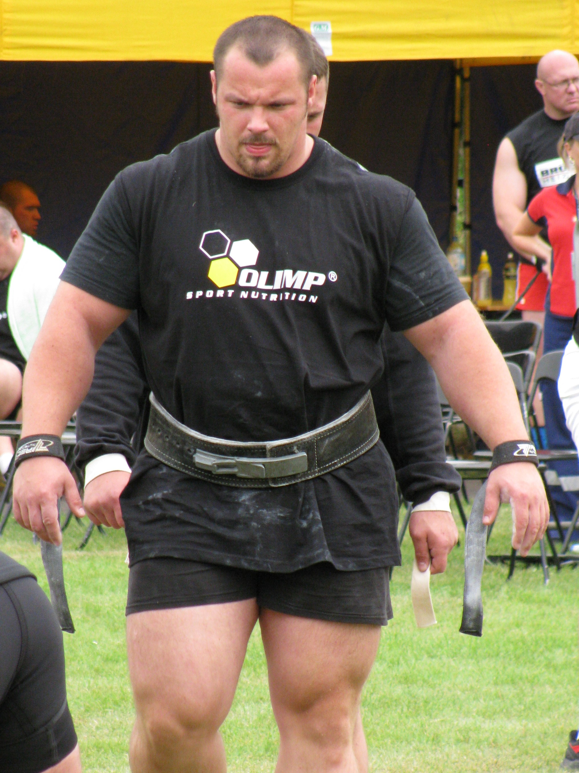 Michal Szymerowski - a strength athlete from Poland